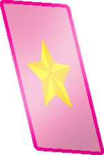 Simple model of a Charter Sakura